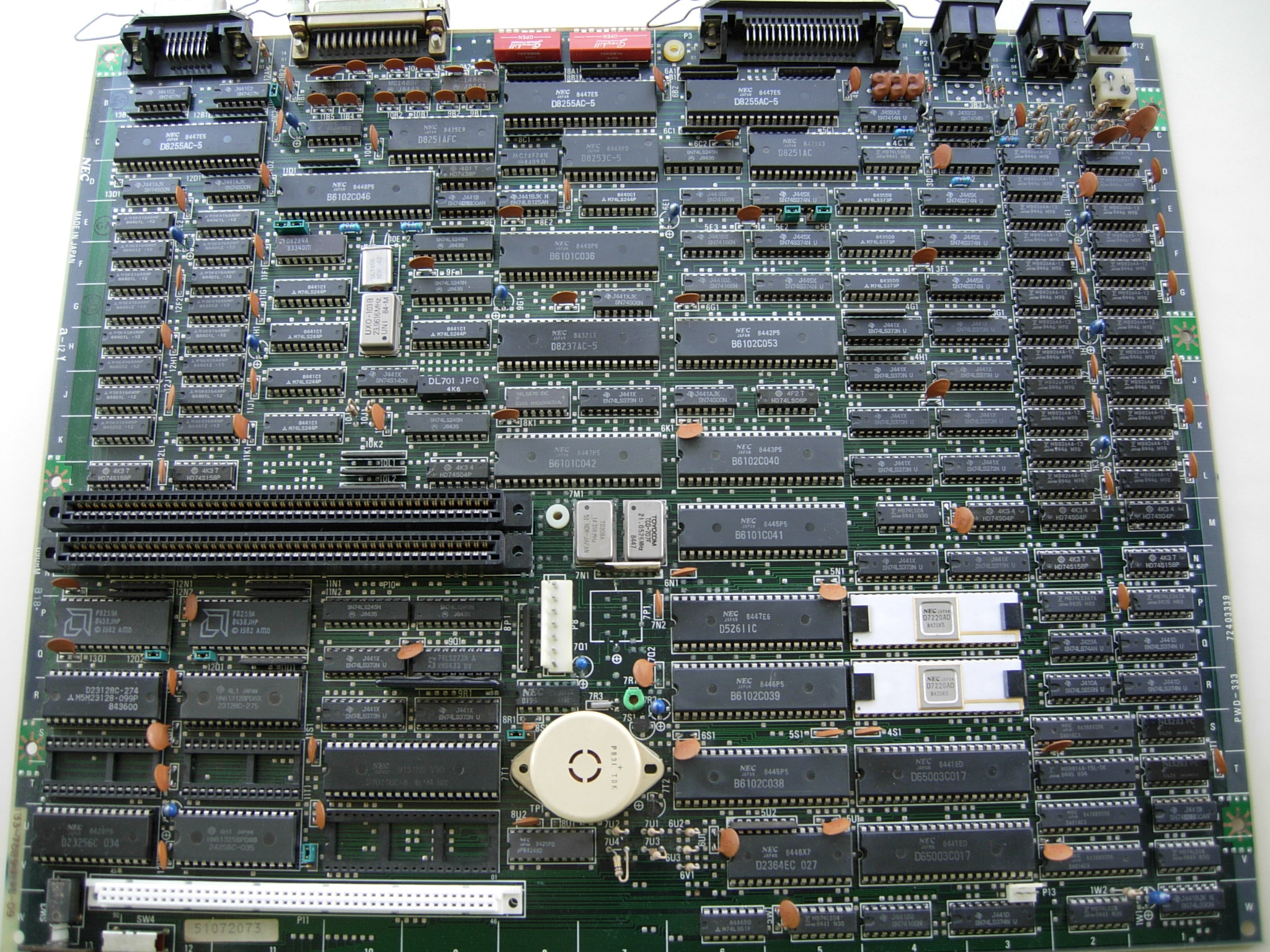 NEC PC-9801F motherboard manufactured in January 1985. The original machine contained NEC clone of 8086-2 processor, but this one is replaced with NEC V30 by the user.